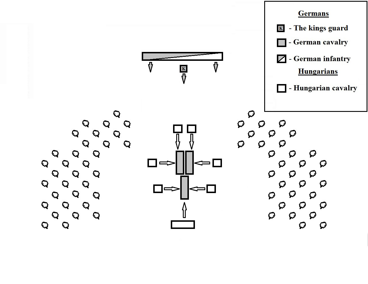 The Hungarian main forces turn back and complete the encirclement of the German cavalry and annihilate it. The infantry and the kings guard aproach slowly to the battlefield, unaware of what happened.